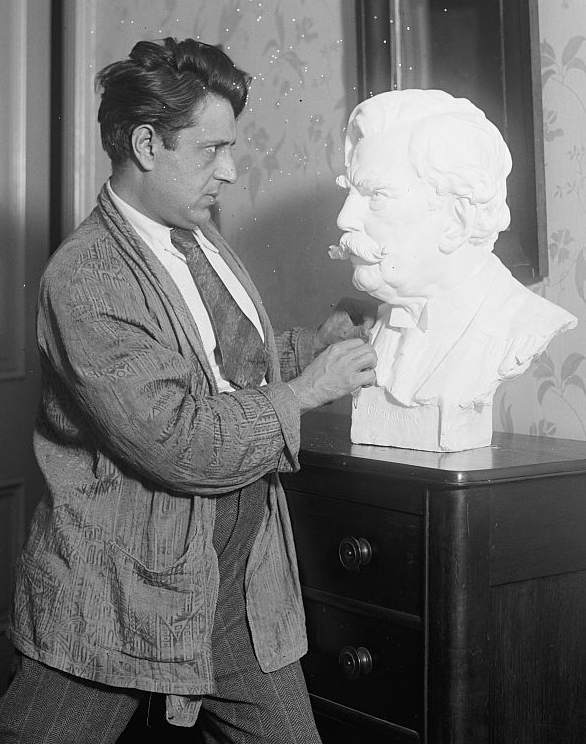 Italian sculptor Edgardo Simone (1890-1948) with bust of U.S. Supreme Court justice Oliver Wendell Holmes.